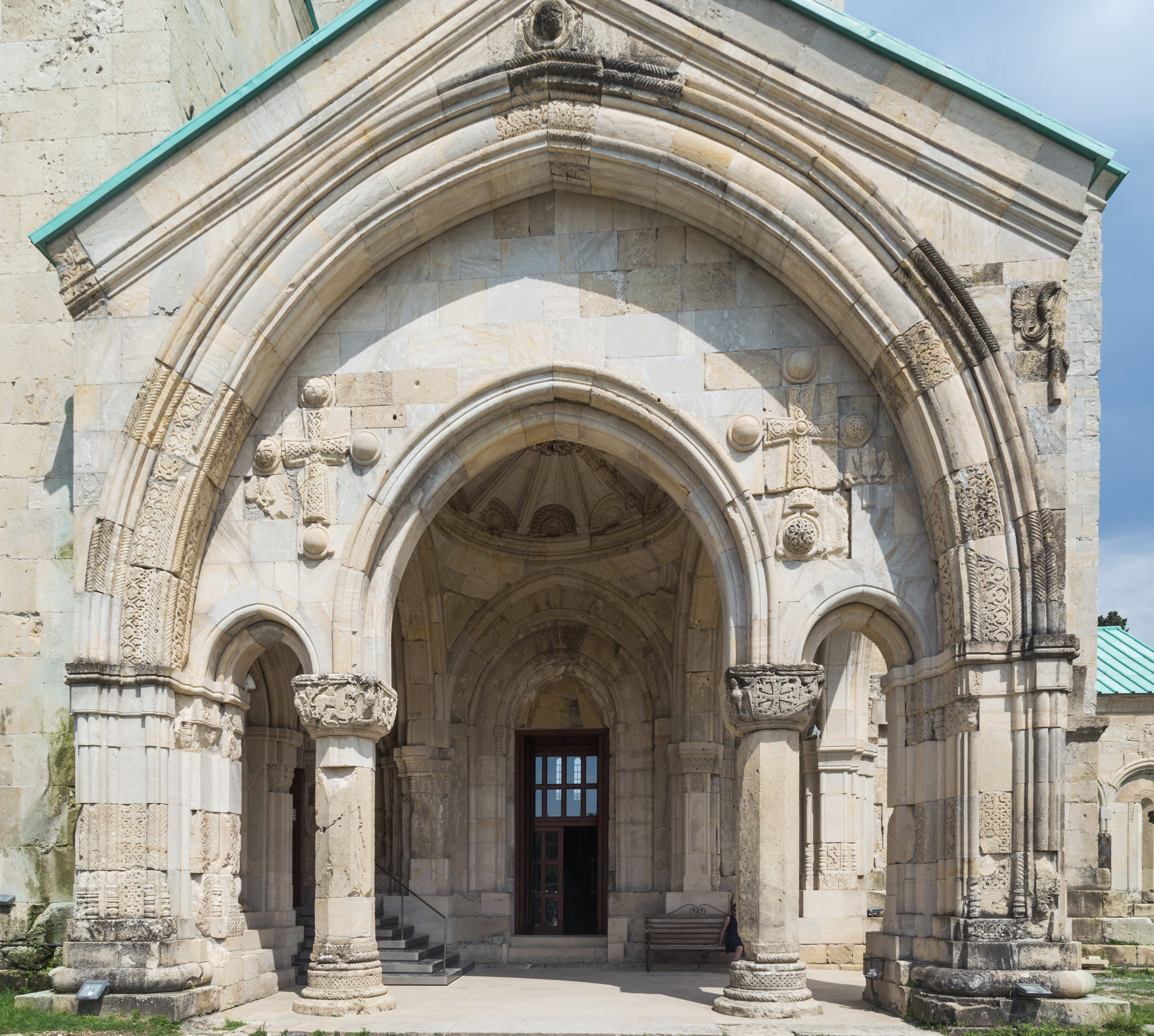 Bagrati Cathedral. Kutaisi, Imereti, Georgia.